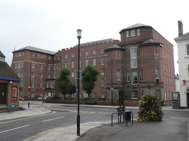 Salisbury: the old infirmary The writing below the top row of windows reads "Royal Infirmary Built by Voluntary Subscription". The building is now in residential use.